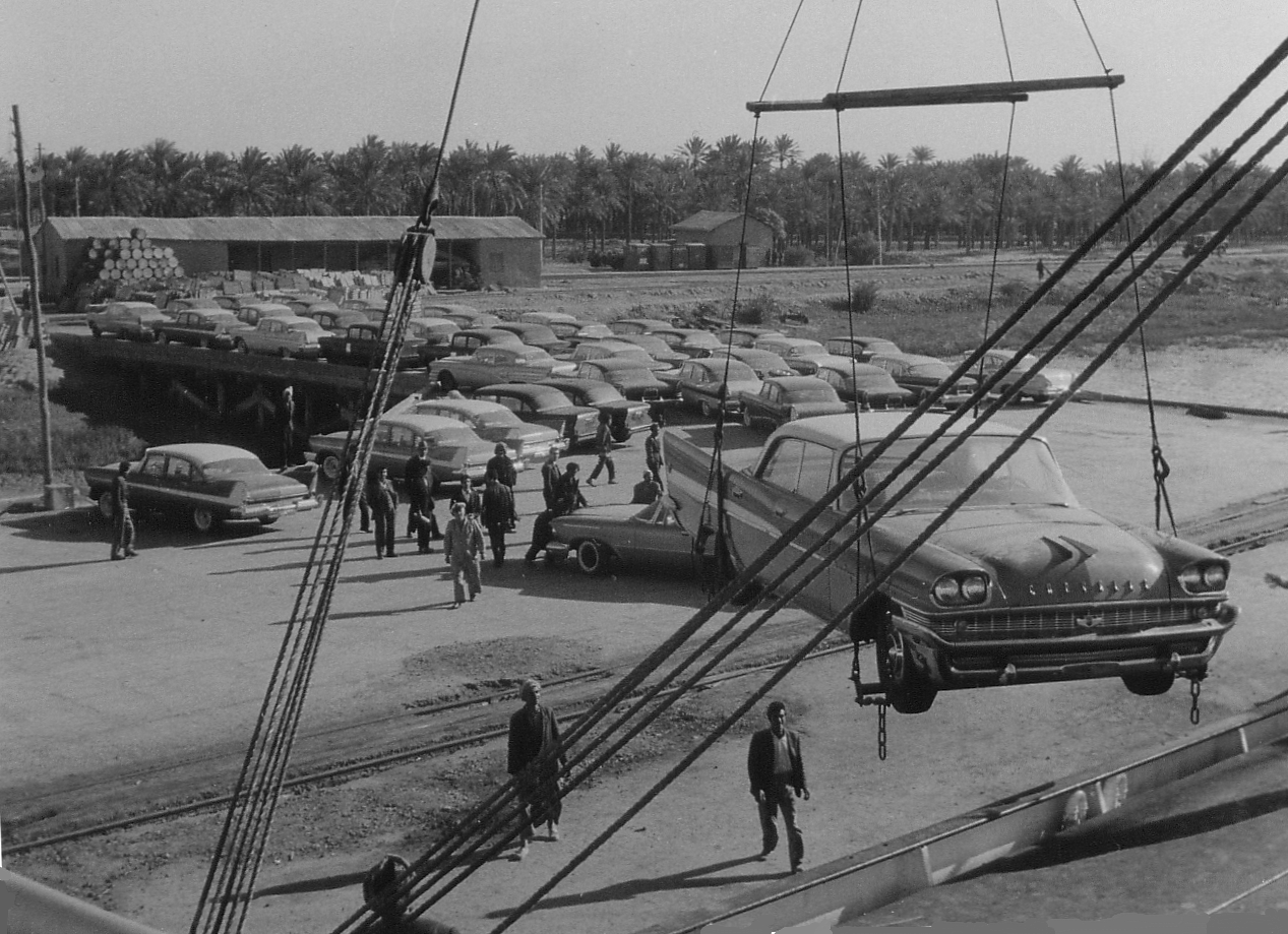 American cars are unloaded at a port on the Shatt al-Arab in 1958